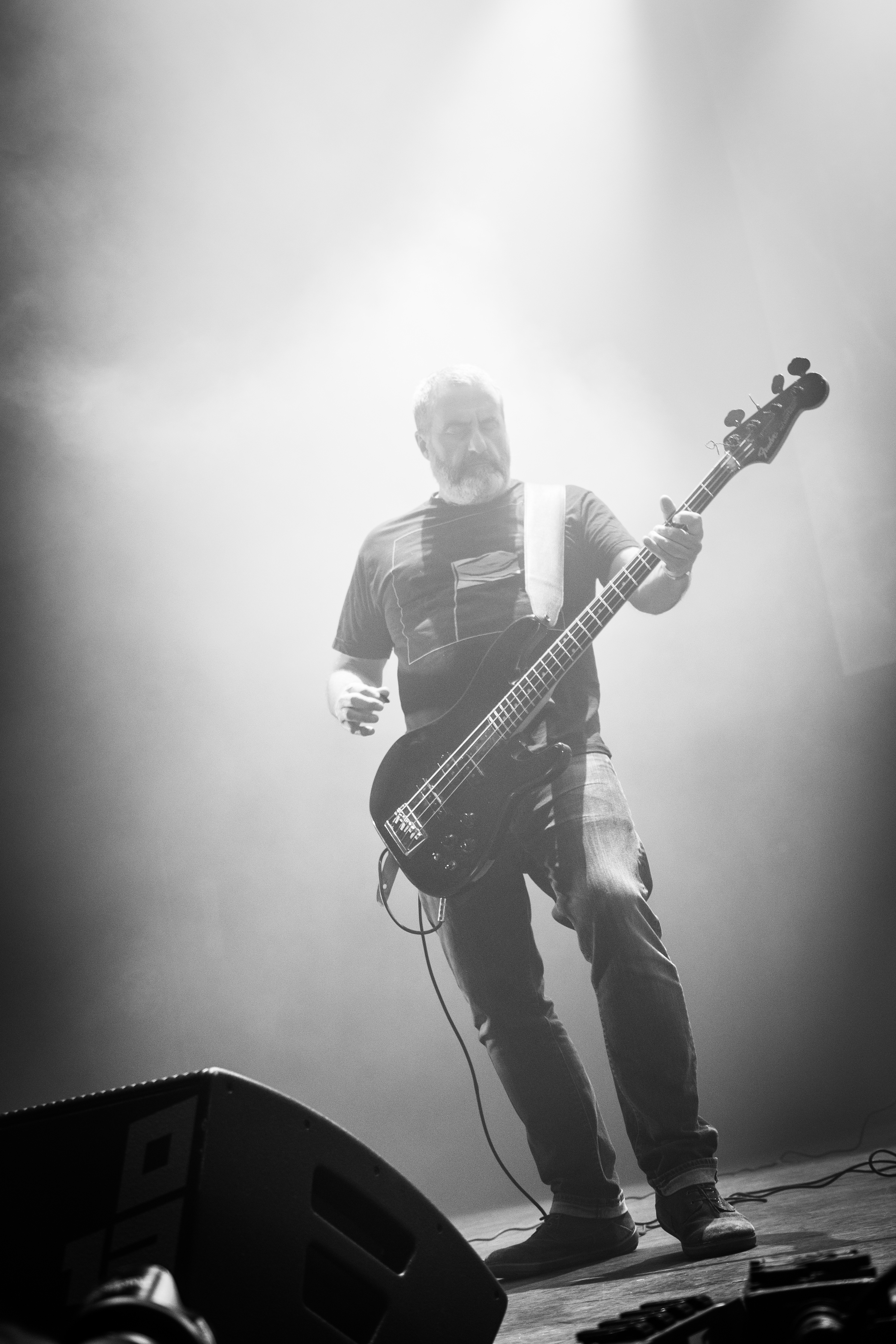 Godflesh performing live at Roadburn Festival 2018